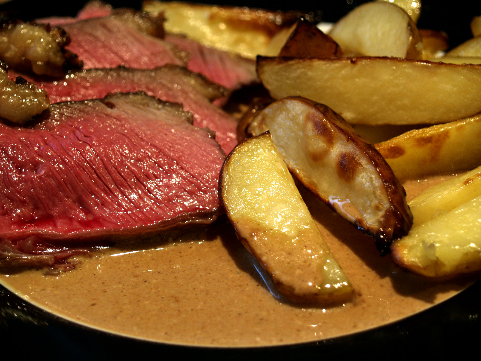 Roast beef with oven-baked potatoes